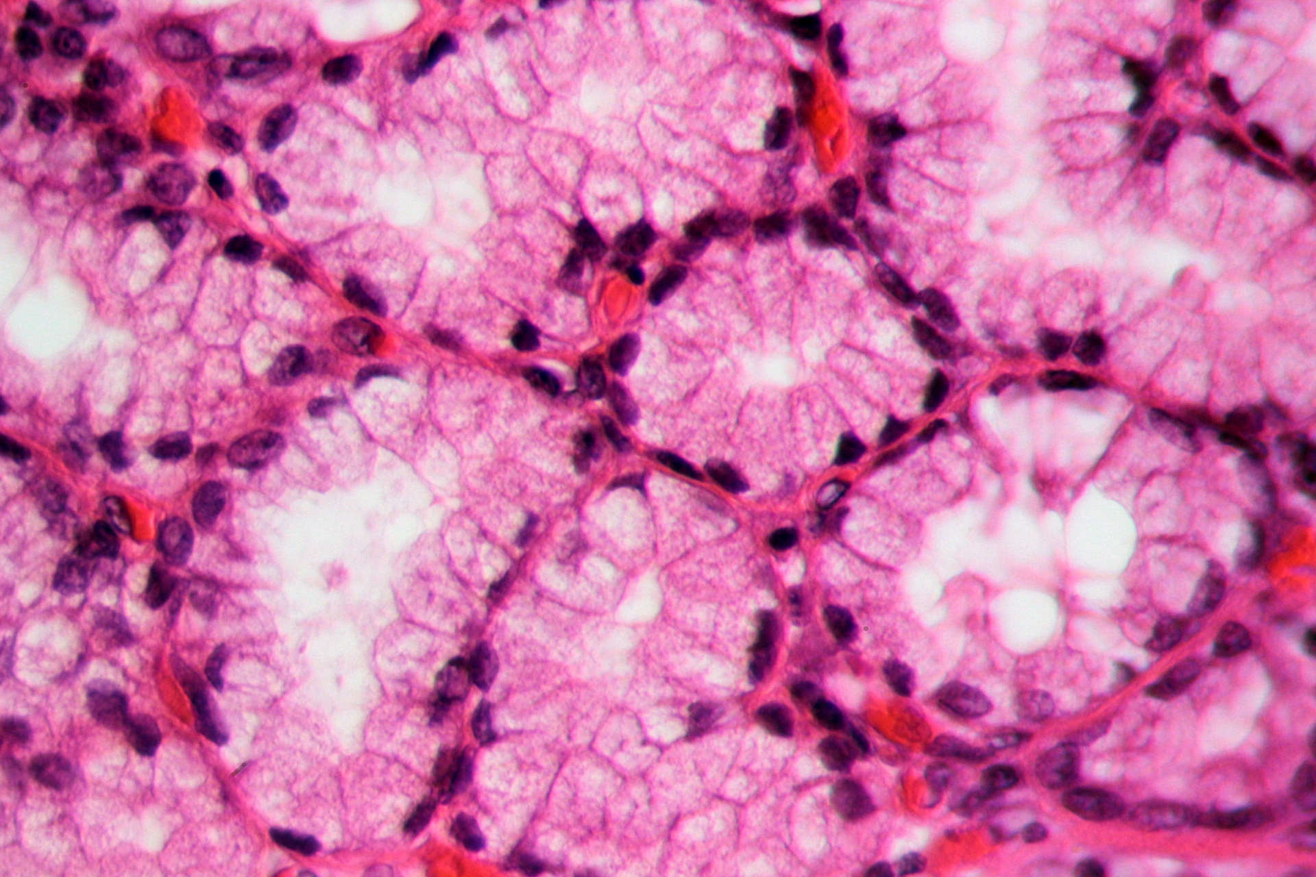 Chronic recurrent cholecystitis in a case of cholecystolithiasis.